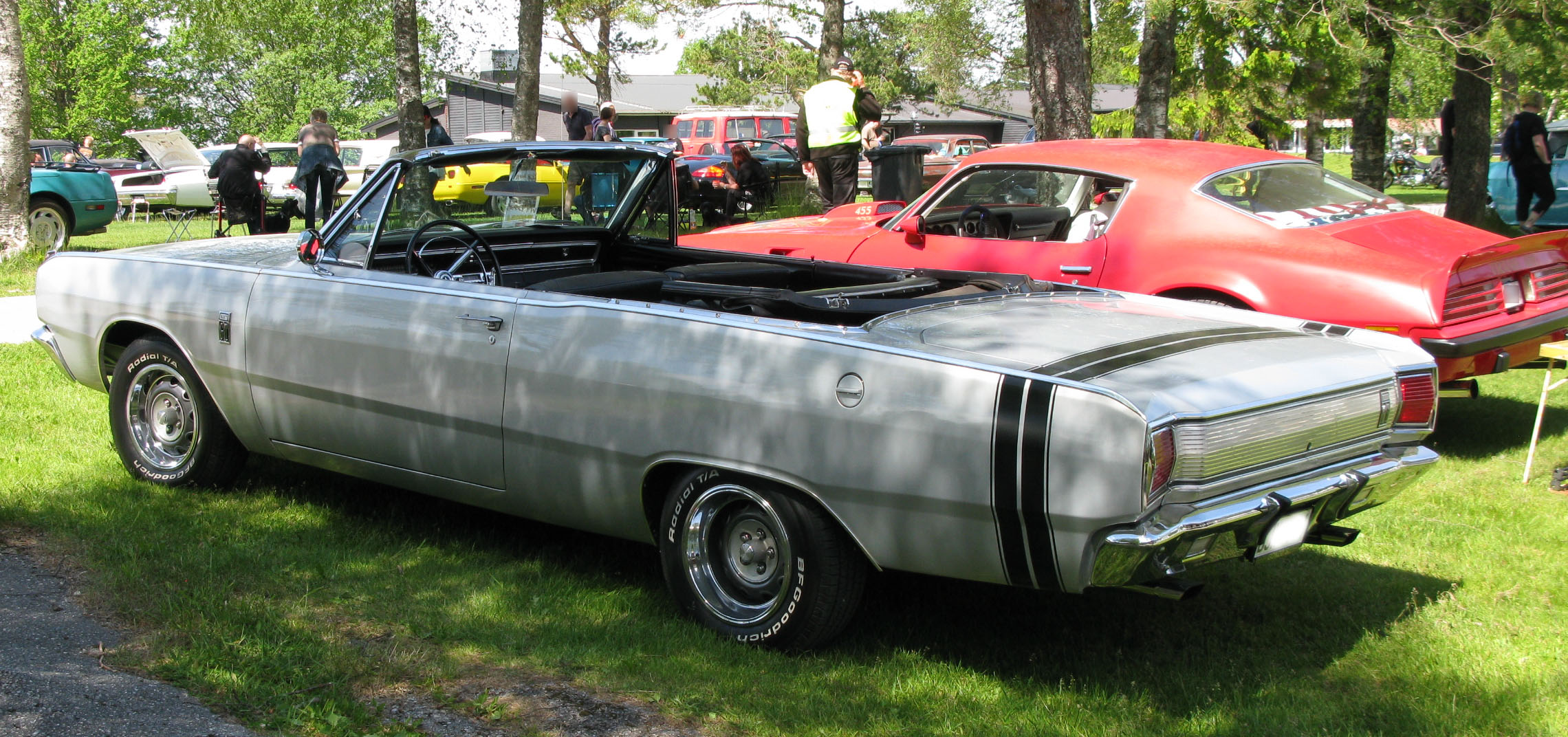 1967 Dodge Dart GT Event: Ånnaboda Classic Motor 2015